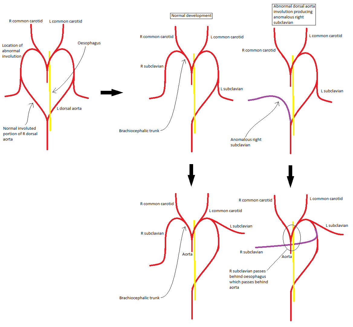 Embryology of the aberrant right subclavian artery